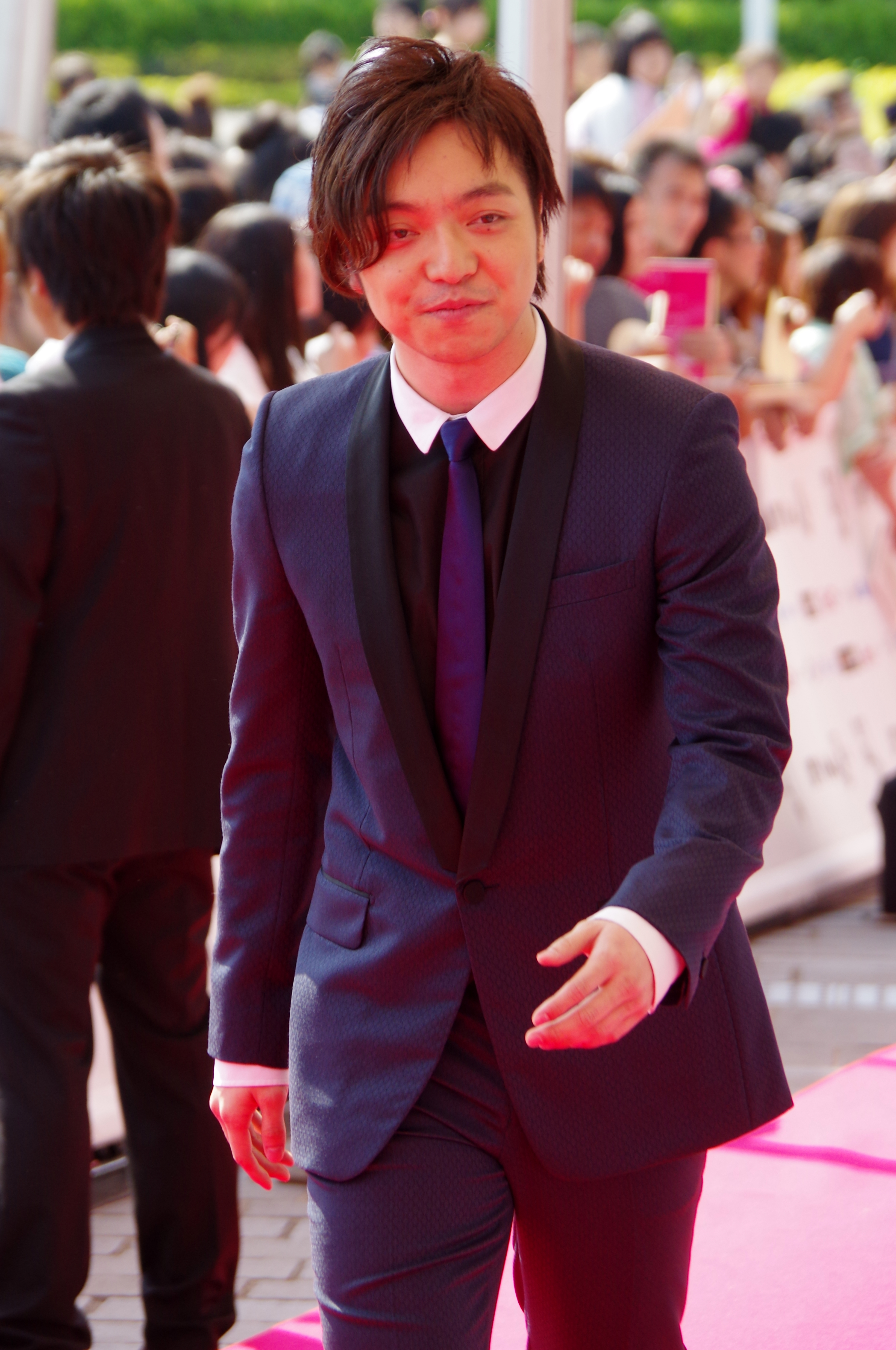 Daichi Miura MTV VMAJ 2014